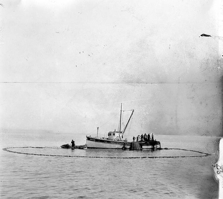 From John Cobb field notebook: Gradually narrowing the circle. Subjects (LCTGM): Fishermen--Washington (State)--Puget Sound; Fishing industry--Washington (State)--Puget Sound Subjects (LCSH): Purse seining--Washington (State)--Puget Sound; Fishing boats--Washington (State)--Puget Sound; Fisheries--Washington (State)--Puget Sound